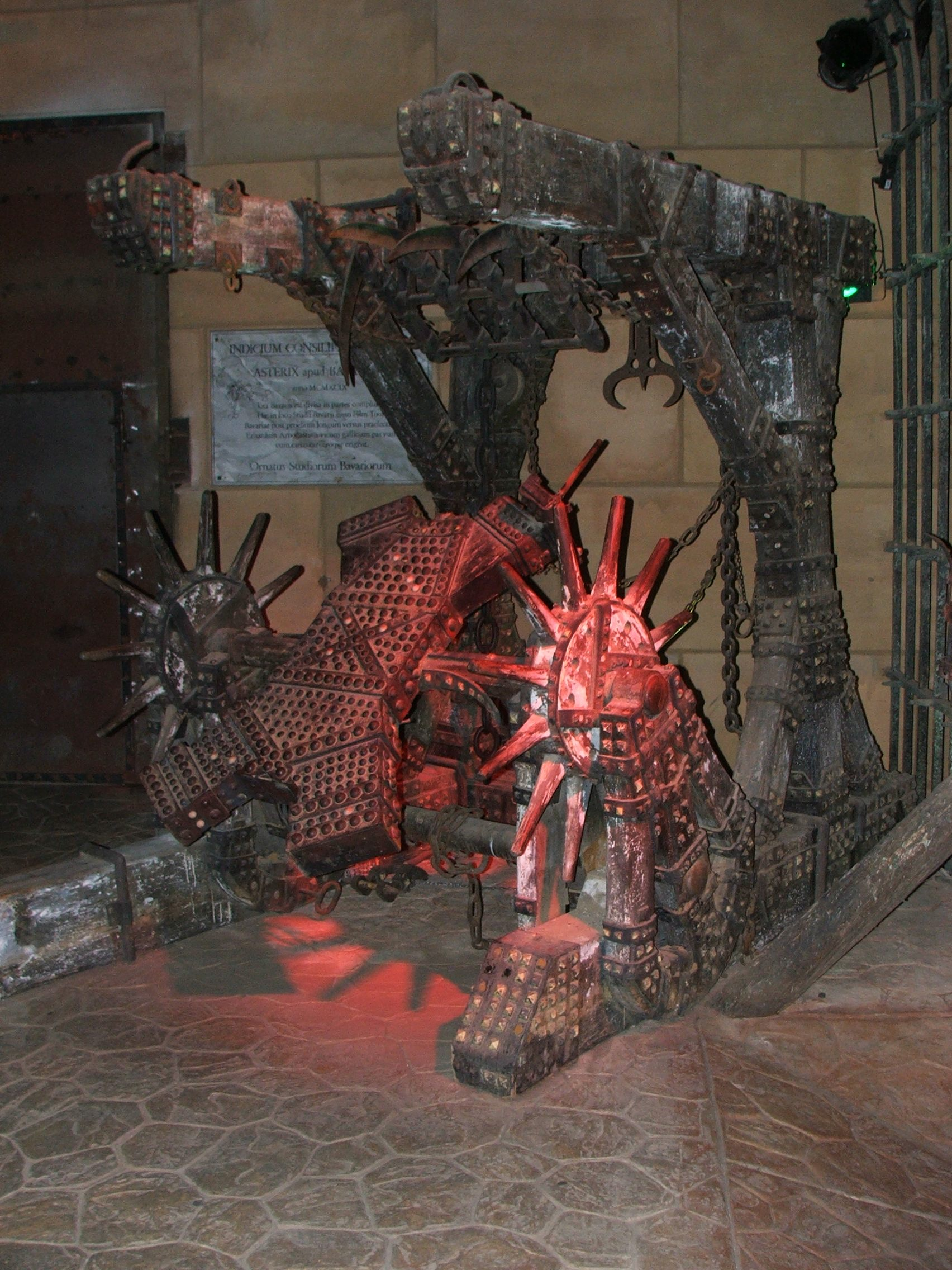 Bavaria Filmstadt, Munich, Bavaria, Germany.